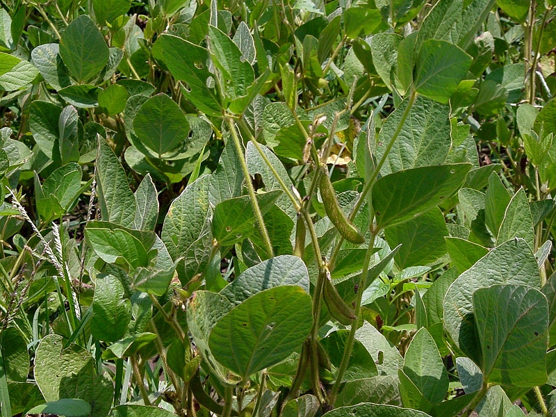 Soybean (Glycine max) at the Mississippi river, South Illinois, USA